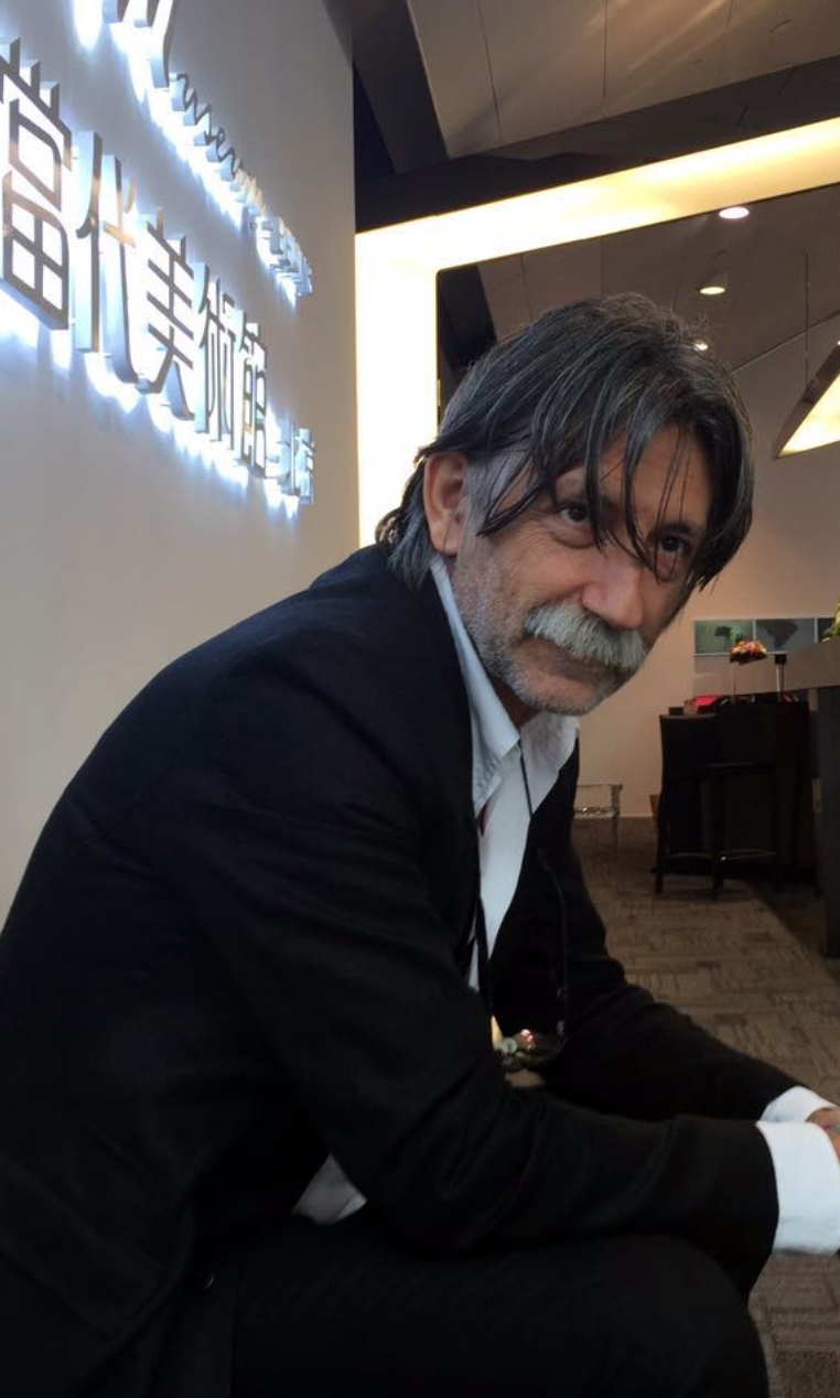 The artist Ugo Giletta at the Parkview Museum, Beijing in 2018.